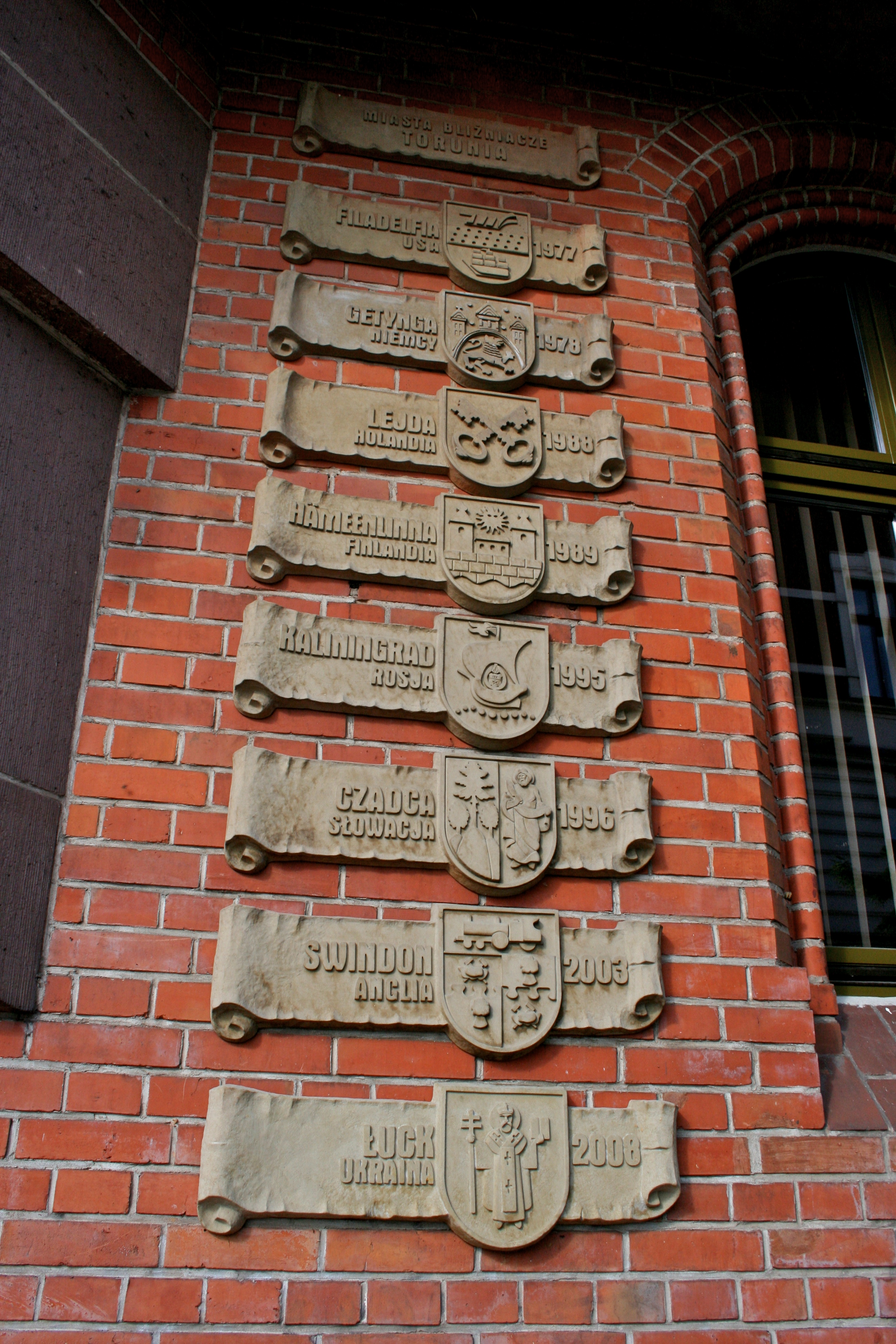 The twin cities of Torun